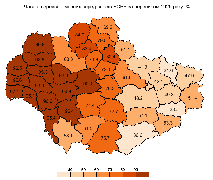 Percentage of jews with jewish as native language in Ukrainian SSR, 1926 Soviet census